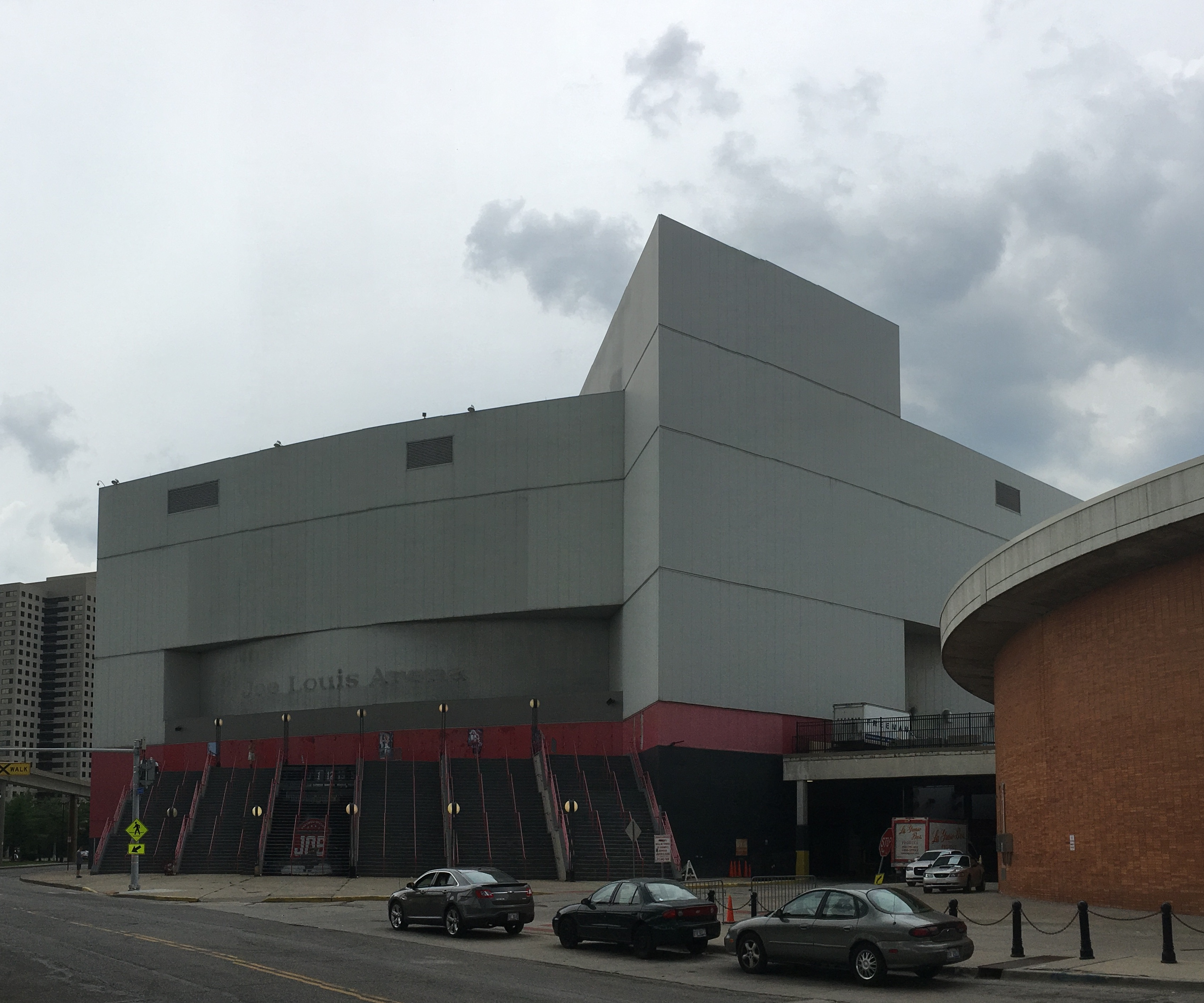 Derelict Joe Louis Arena in Detroit, with the lettering removed